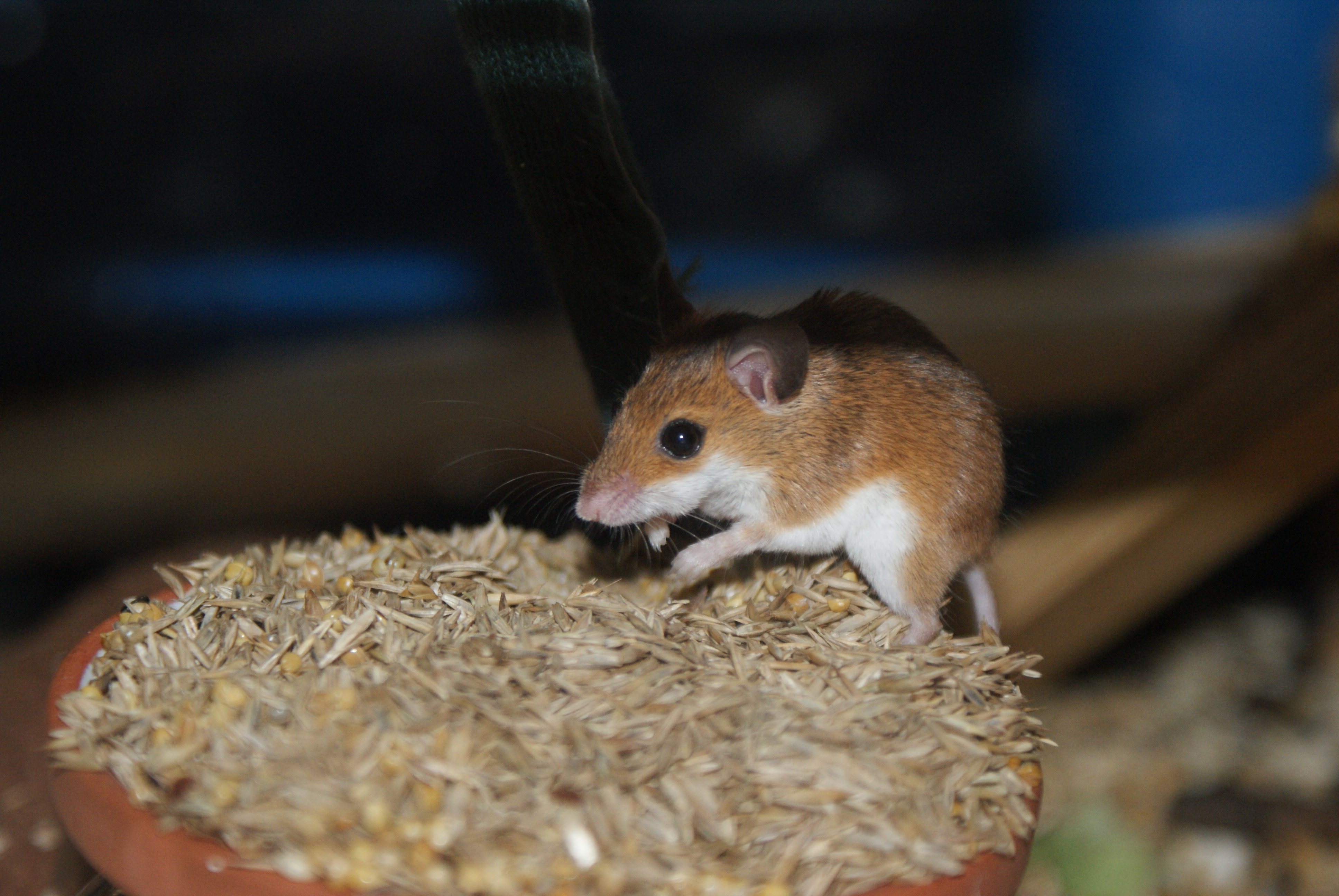 African Pygmy Mouse (Mus musculoides) eating millet and grass seed